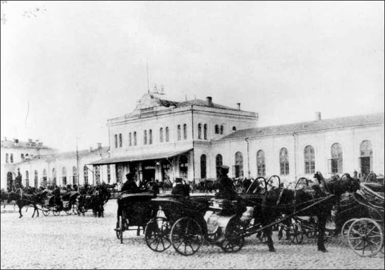 Vilnius train station (19th century)